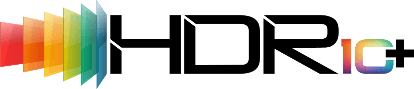 HDR10+ Logo